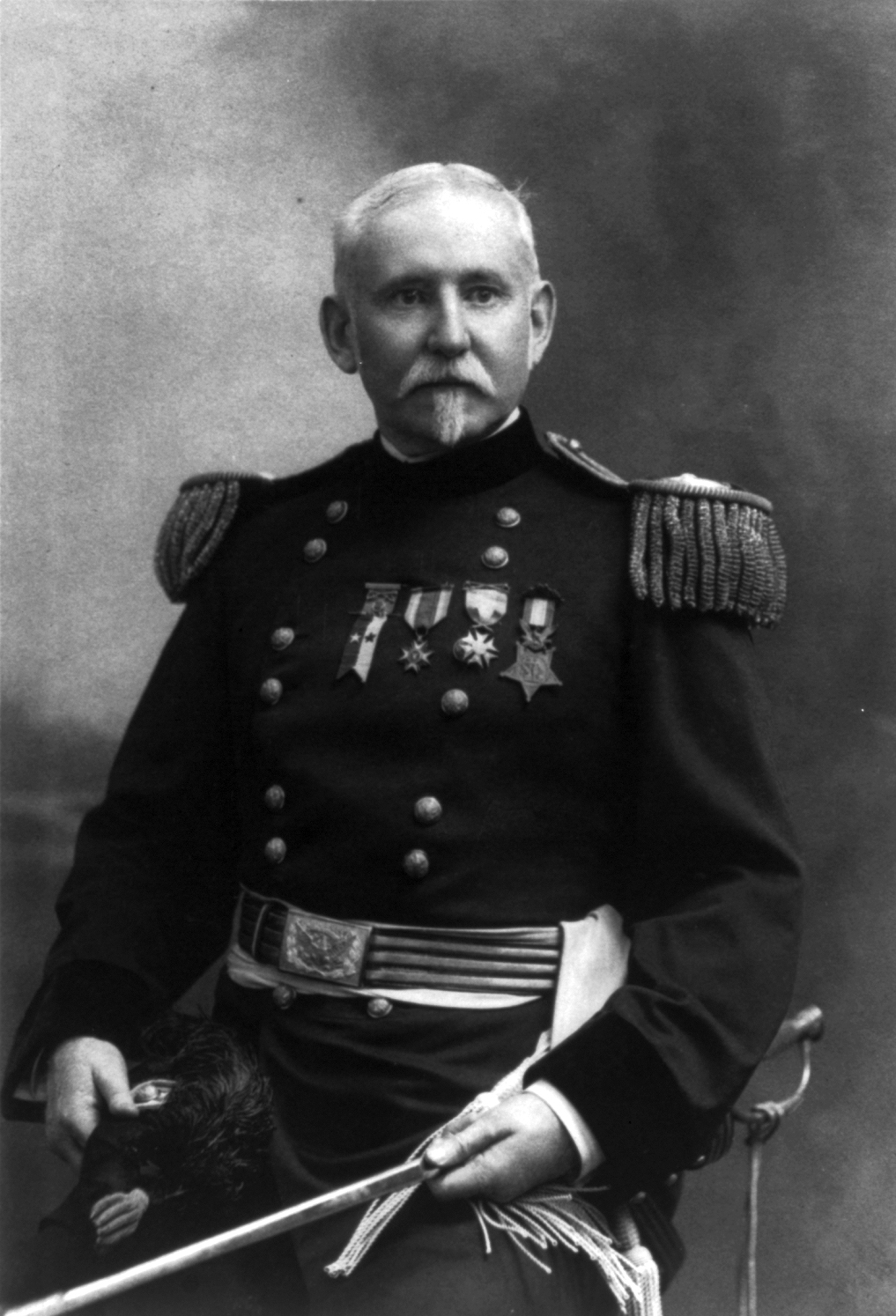 George Lewis Gillespie, half-length, seated, in uniform, facing front